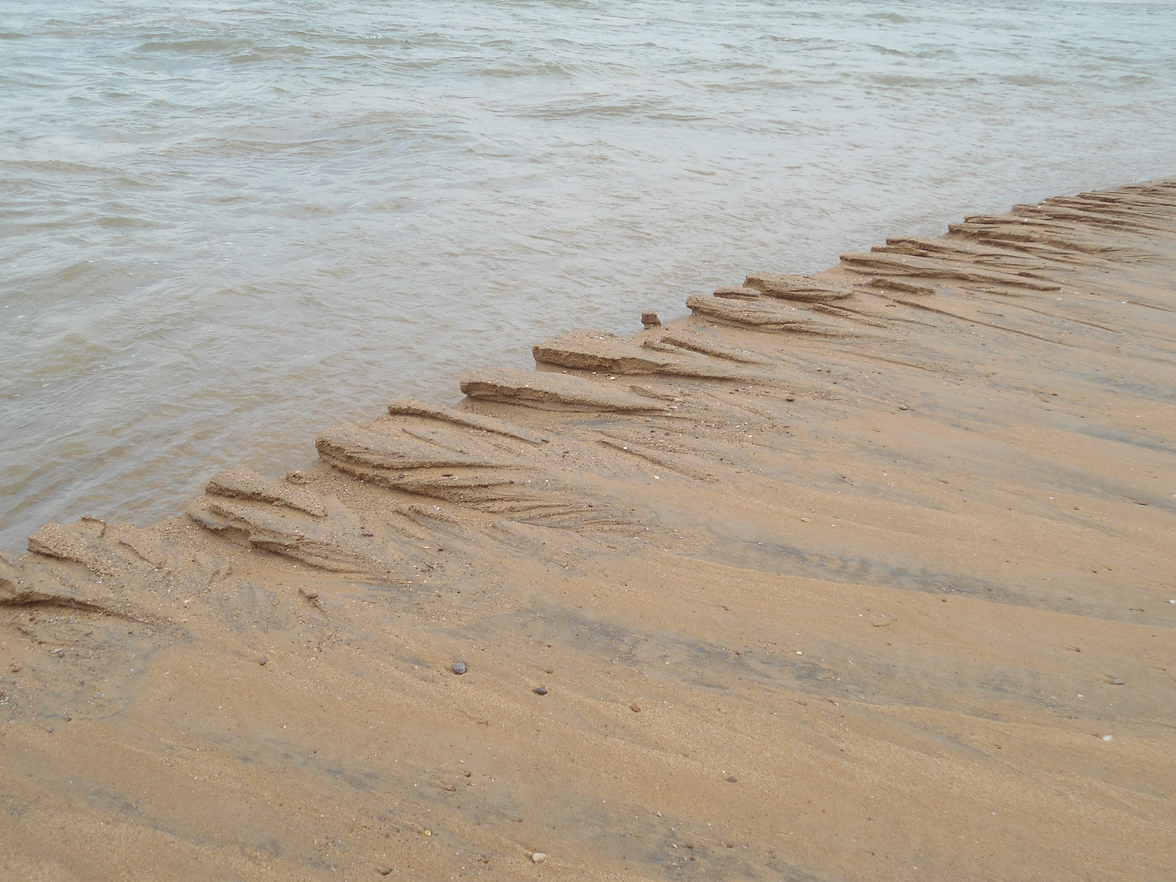 Beach sand erosion at river Gosthani estuary, Bheemunipatnam, Visakhapatnam district, India